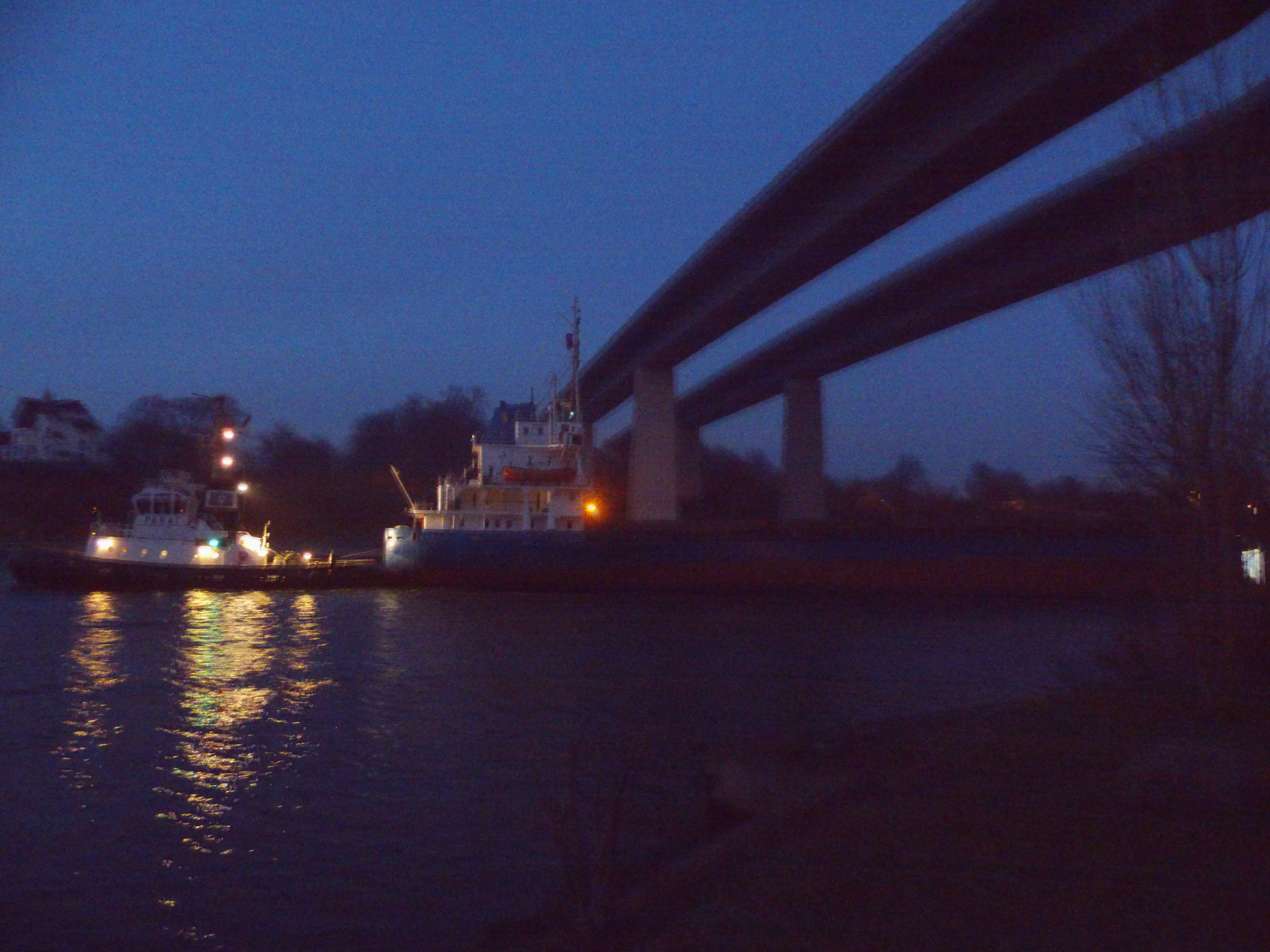 Siderfly in Kiel Kiel Canal on the way to scrapping/Brigde Holtenau